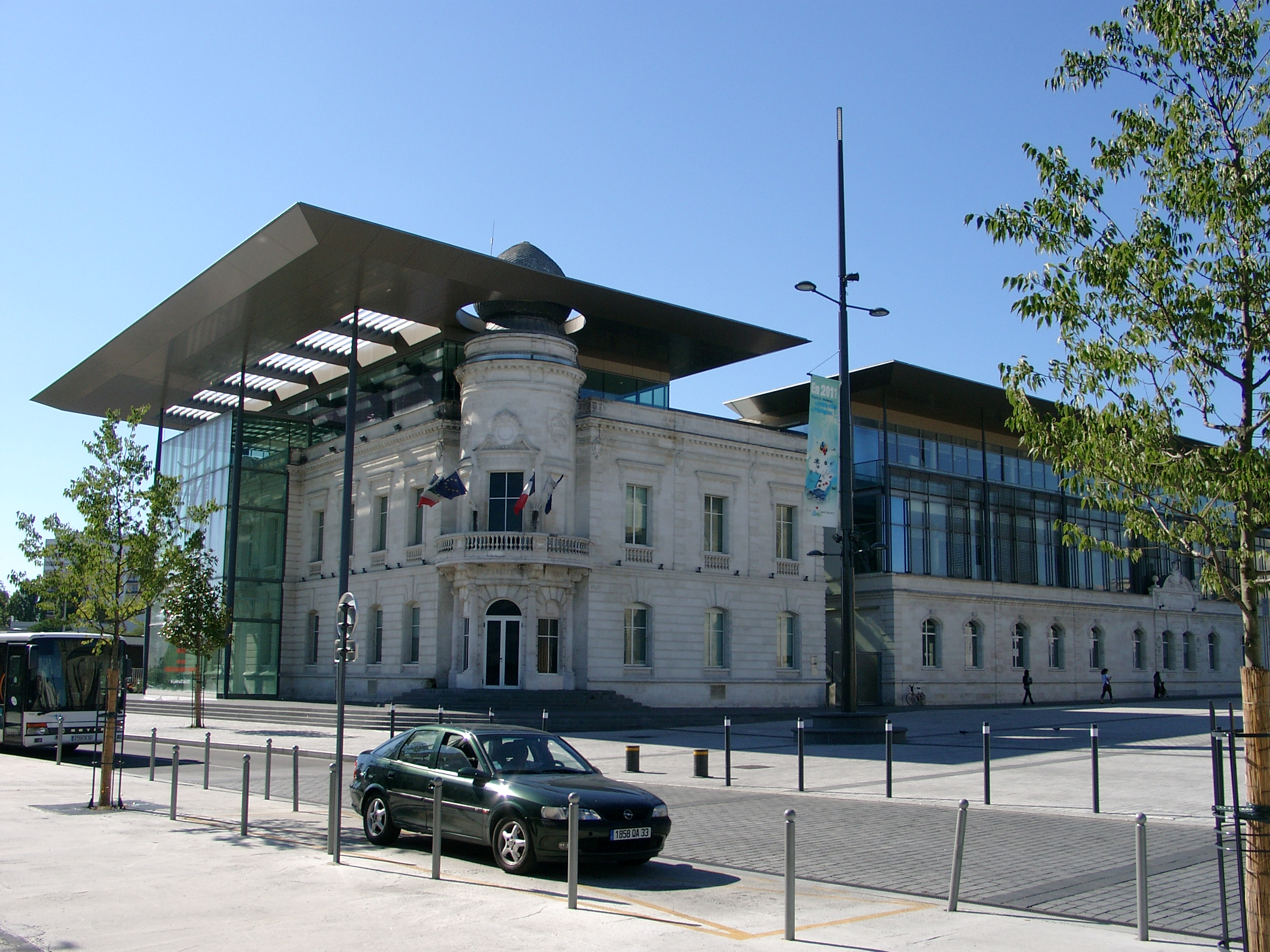 Media library of Merignac (France, Gironde).